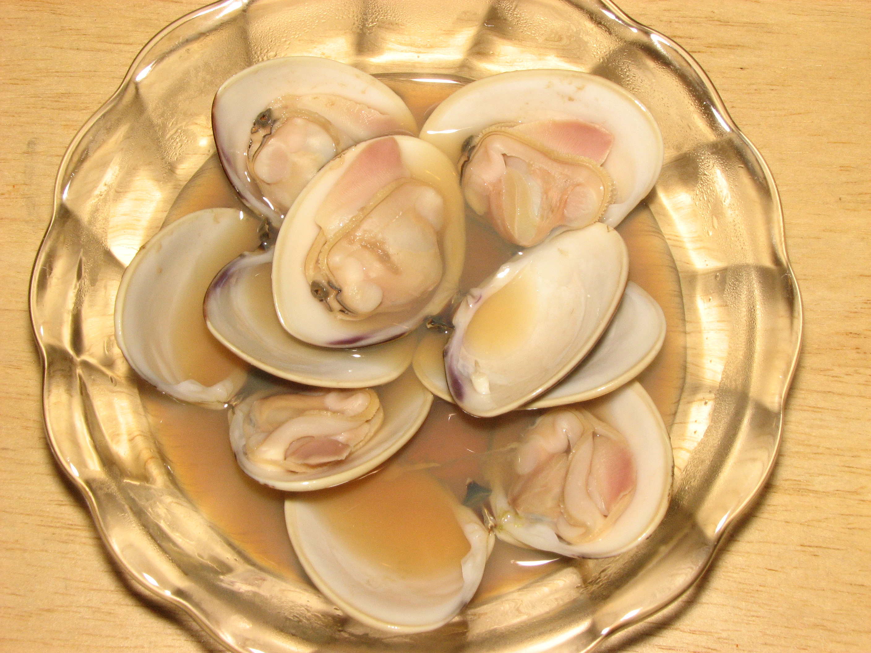 Saka-mushi the steamed Meretrix lamarckii by Sake.